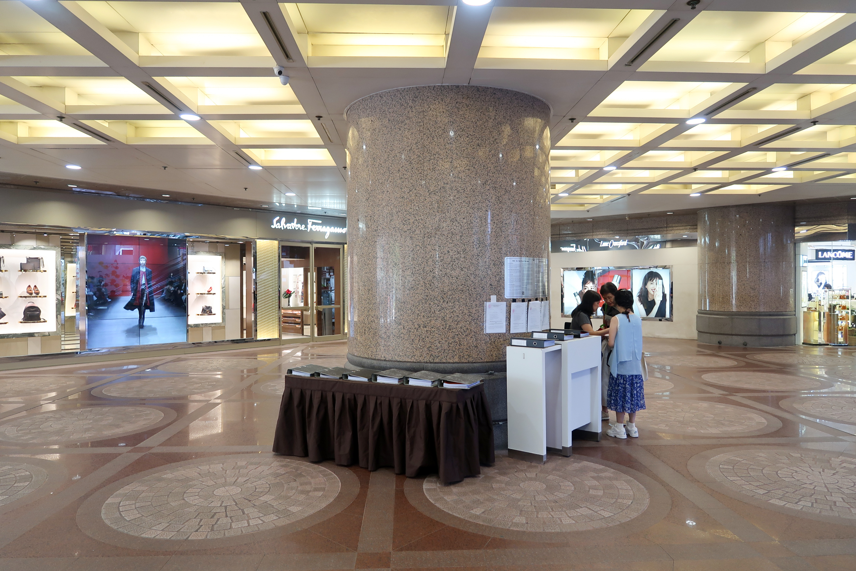 HK Times Square Injunctions